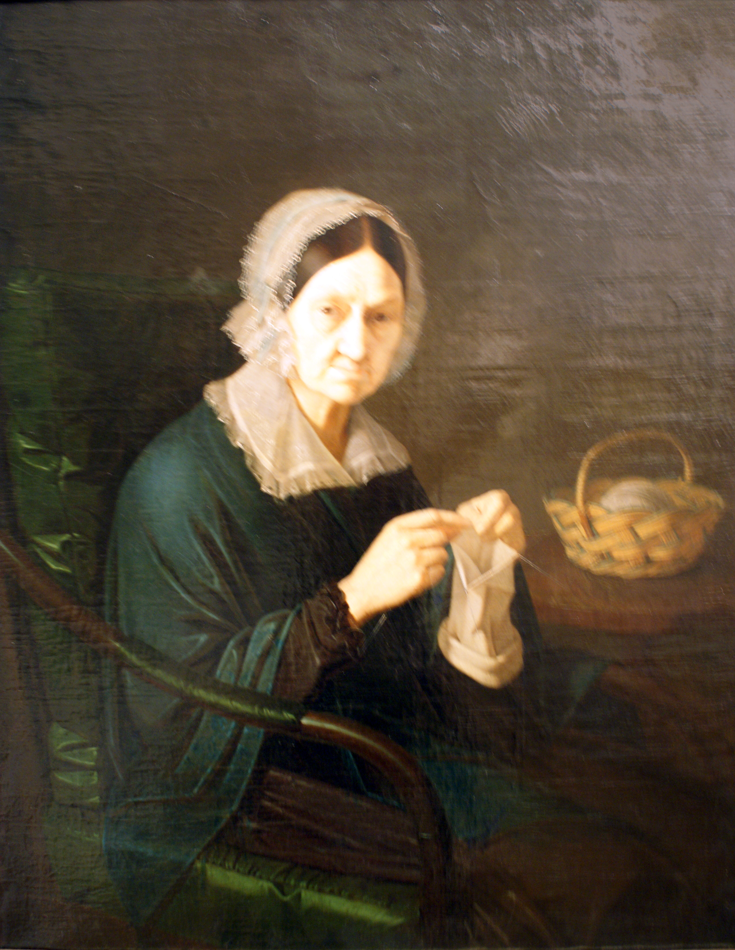 Working old woman